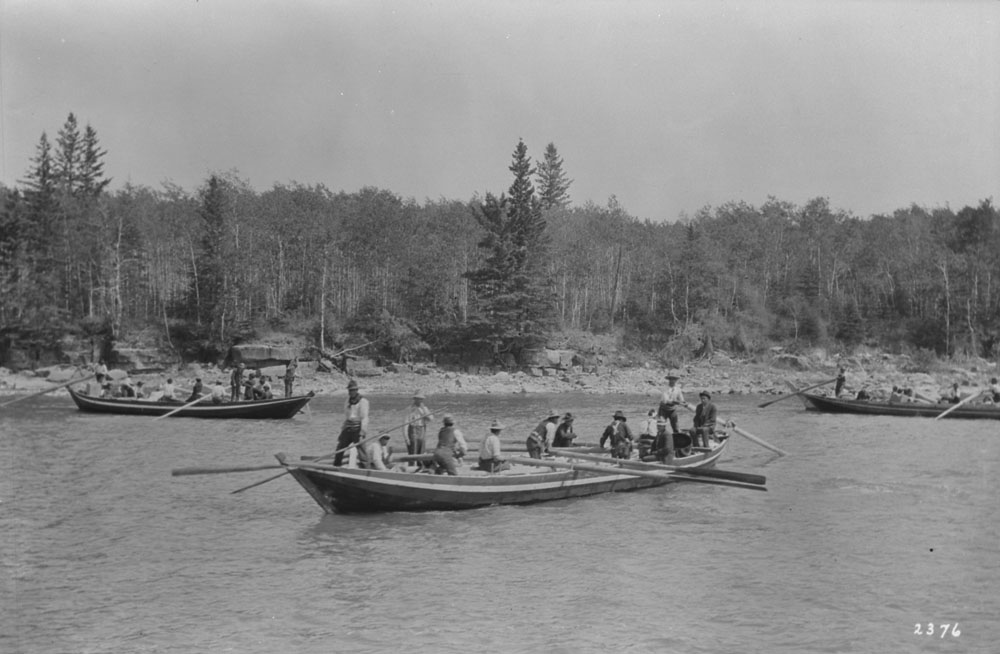 Title / Titre : York boats on the Saskatchewan River, Cumberland House, Saskatchewan / Des barges d’York sur la rivière Saskatchewan, à Cumberland House (Saskatchewan) Creator(s) / Créateur(s) : Unknown / Inconnu Date(s) : 1912 Reference No. / Numéro de référence : MIKAN 3238041 Location / Lieu : Cumberland House, Saskatchewan, Canada Credit / Mention de source : Library and Archives Canada, PA-017395 / Bibliothèque et Archives Canada, PA-017395